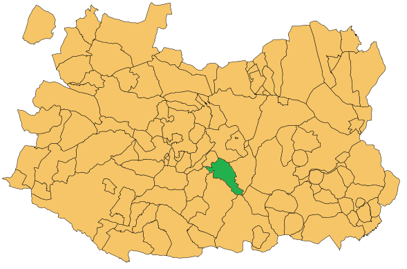 Granátula de Calatrava